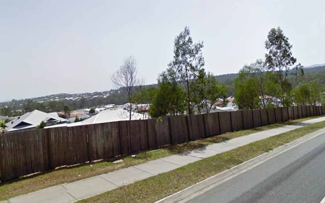 Downhill view of a large suburban sprawl